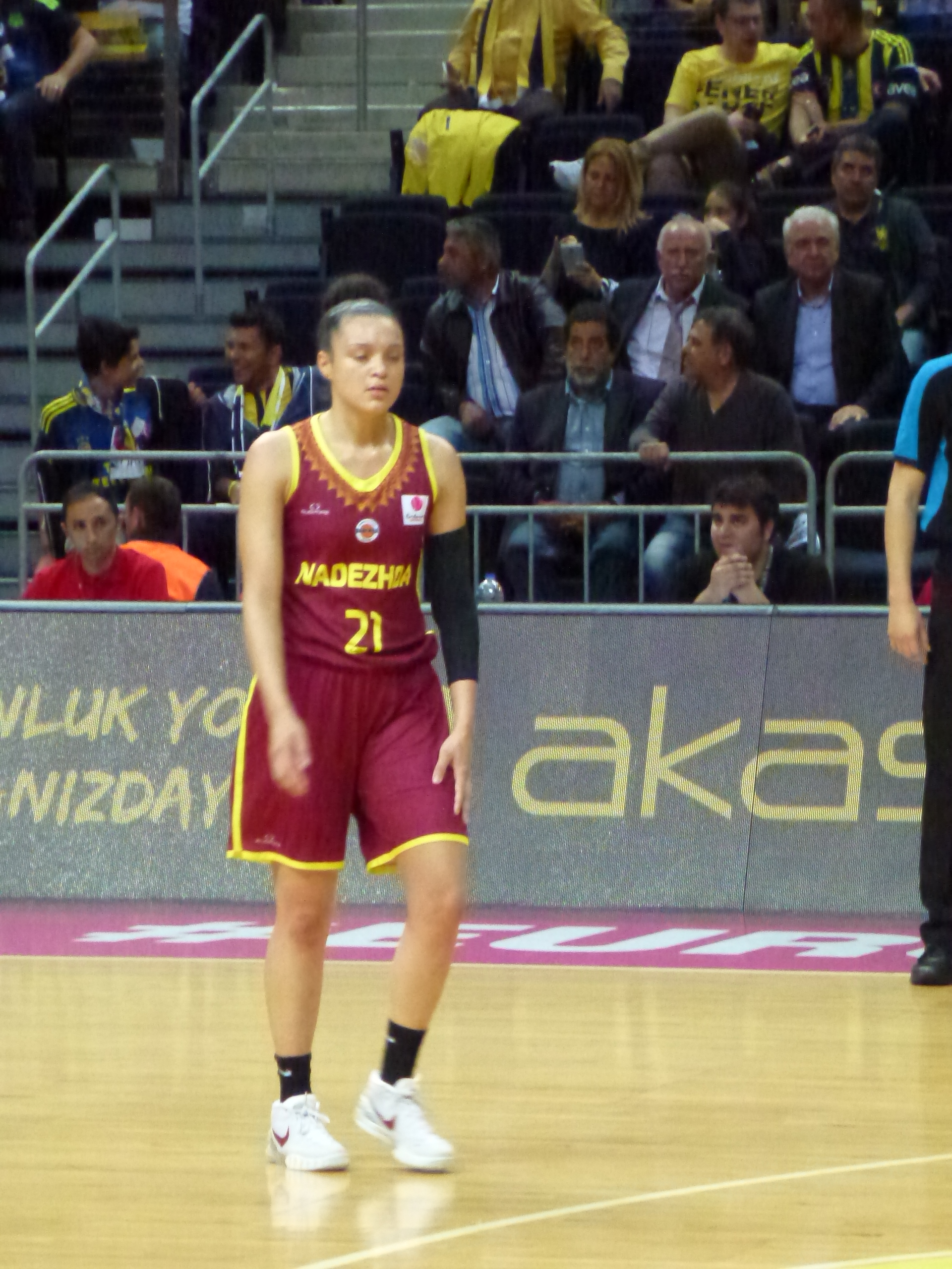 Fenerbahçe Women's Basketball - Nadezhda Orenburg 2015-16 EuroLeague Women semi final on 15 April 2016 in Ülker Sports Arena